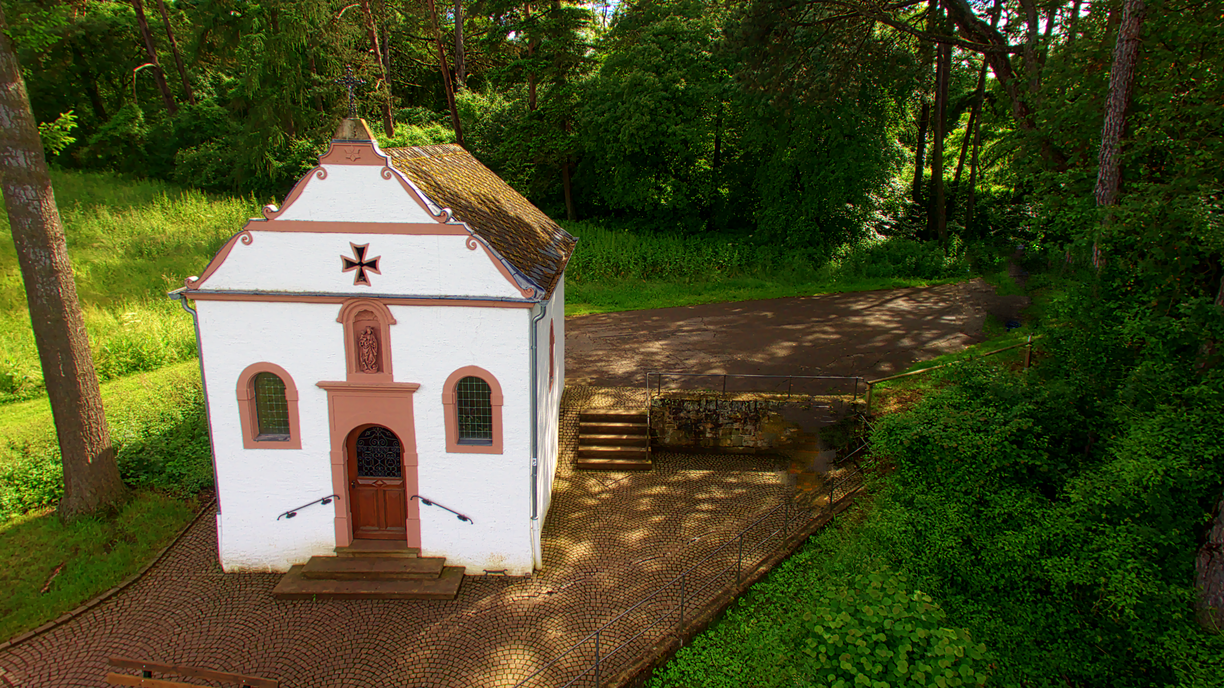 Loeschem chapel. Wasserliesch (Germany)